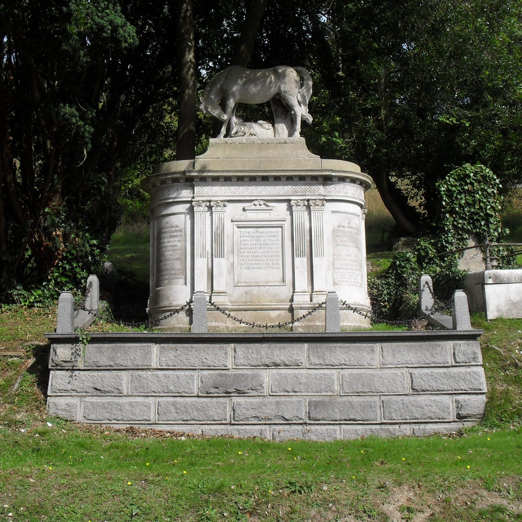 Tomb of John Frederick Ginnett at Woodvale Cemetery, Lewes Road, Brighton, City of Brighton and Hove, England. Listed at Grade II by English Heritage (IoE Code 482035)